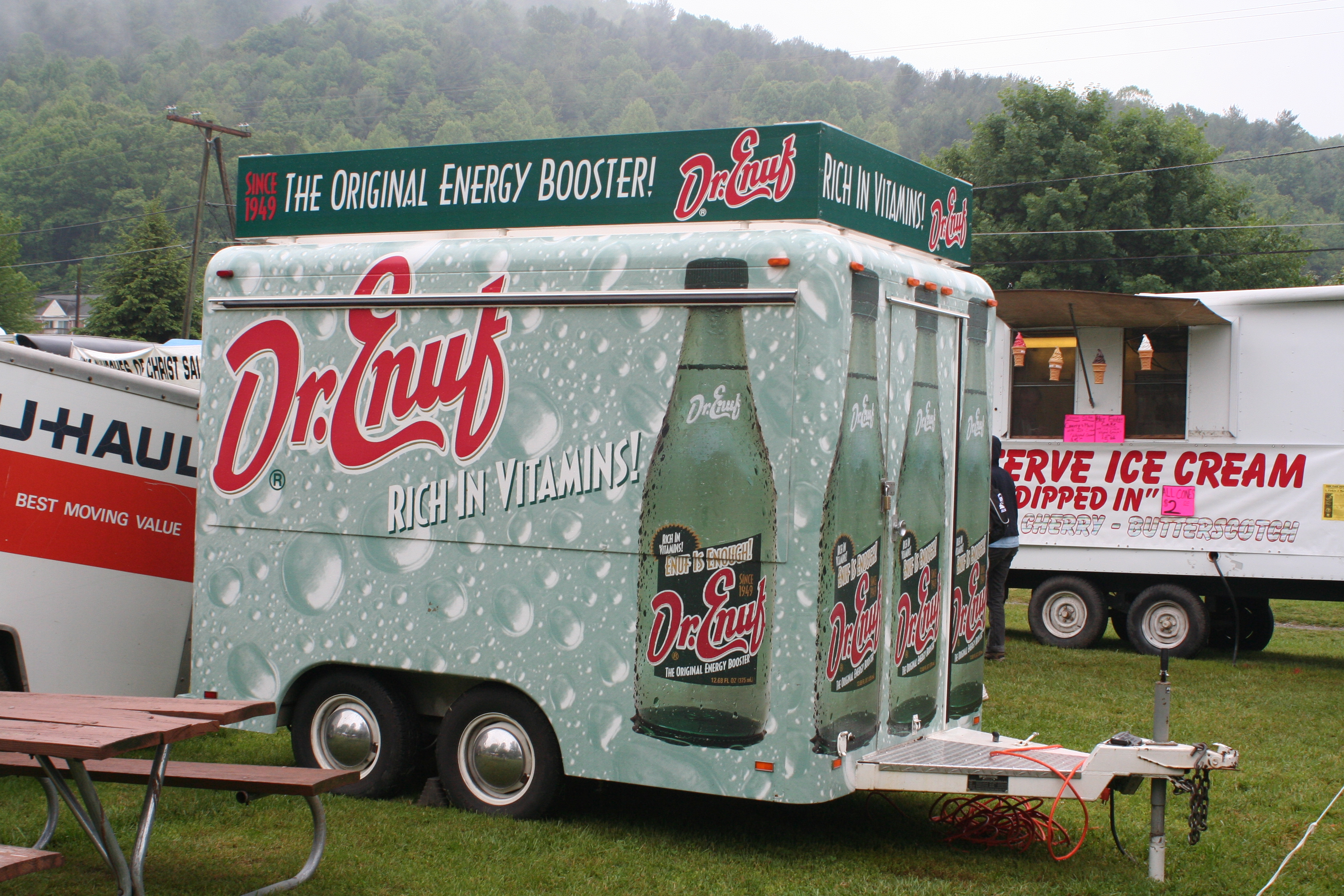 A trailer selling "Dr. Enuf"